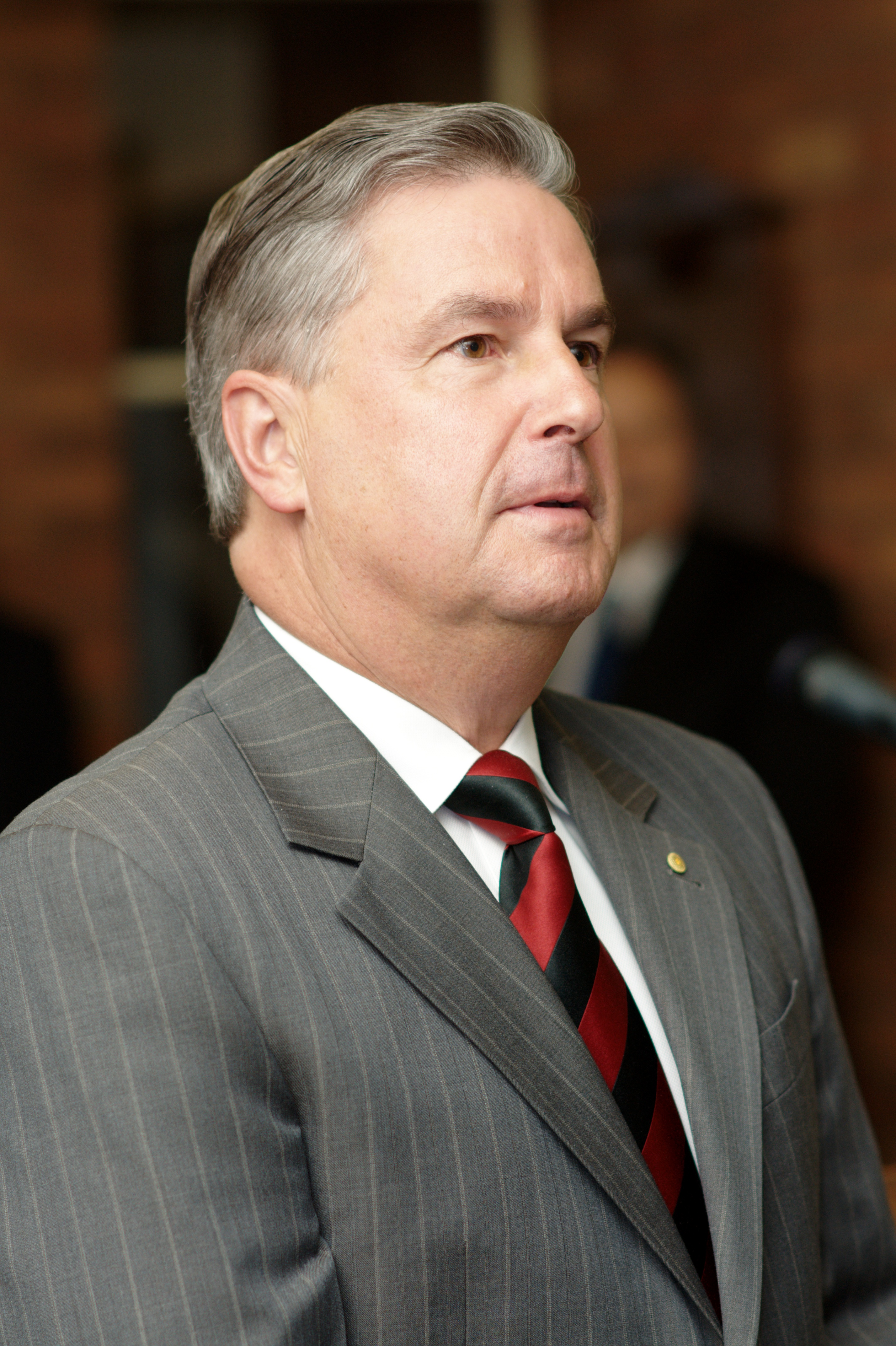 This photo was taken on Monday 16 June 2008 at a reception to welcome His Excellency Rear Admiral Kevin Scarce, AC CSC RANR as Patron of Debating SA Incorporated held at Adelaide High School, Adelaide, South Australia.